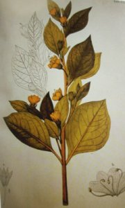 Atropa baetica Willkomm ill. Fl. Hispan. 2: lám. CLXX, 1892